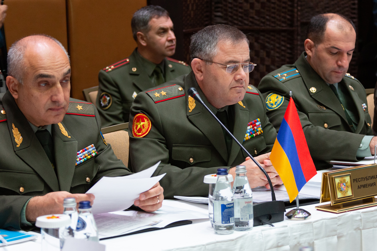 Artak Davtyan